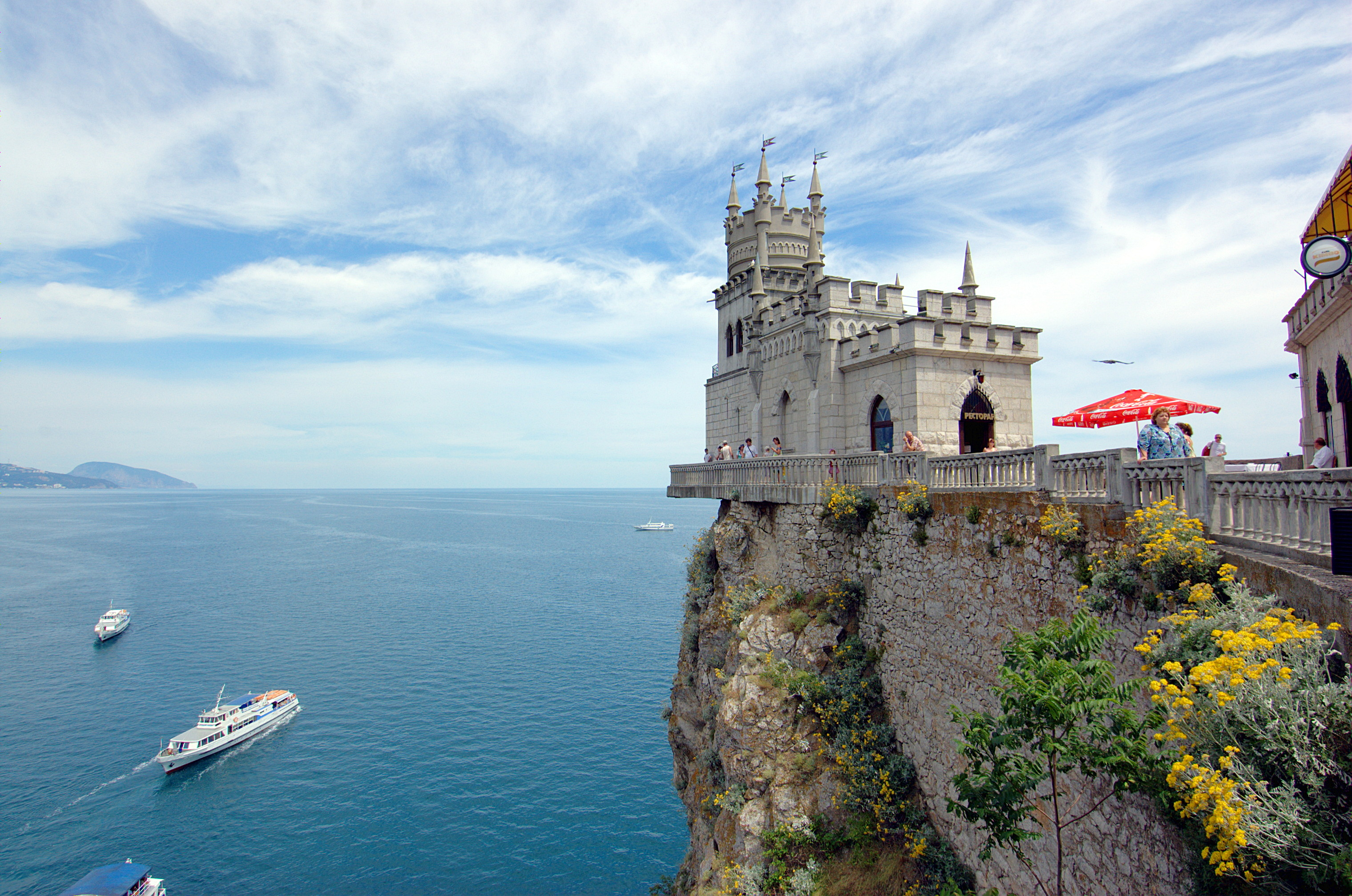 Swallow's Nest - is a mock-medieval castle near Gaspra, in Crimea, Ukraine.